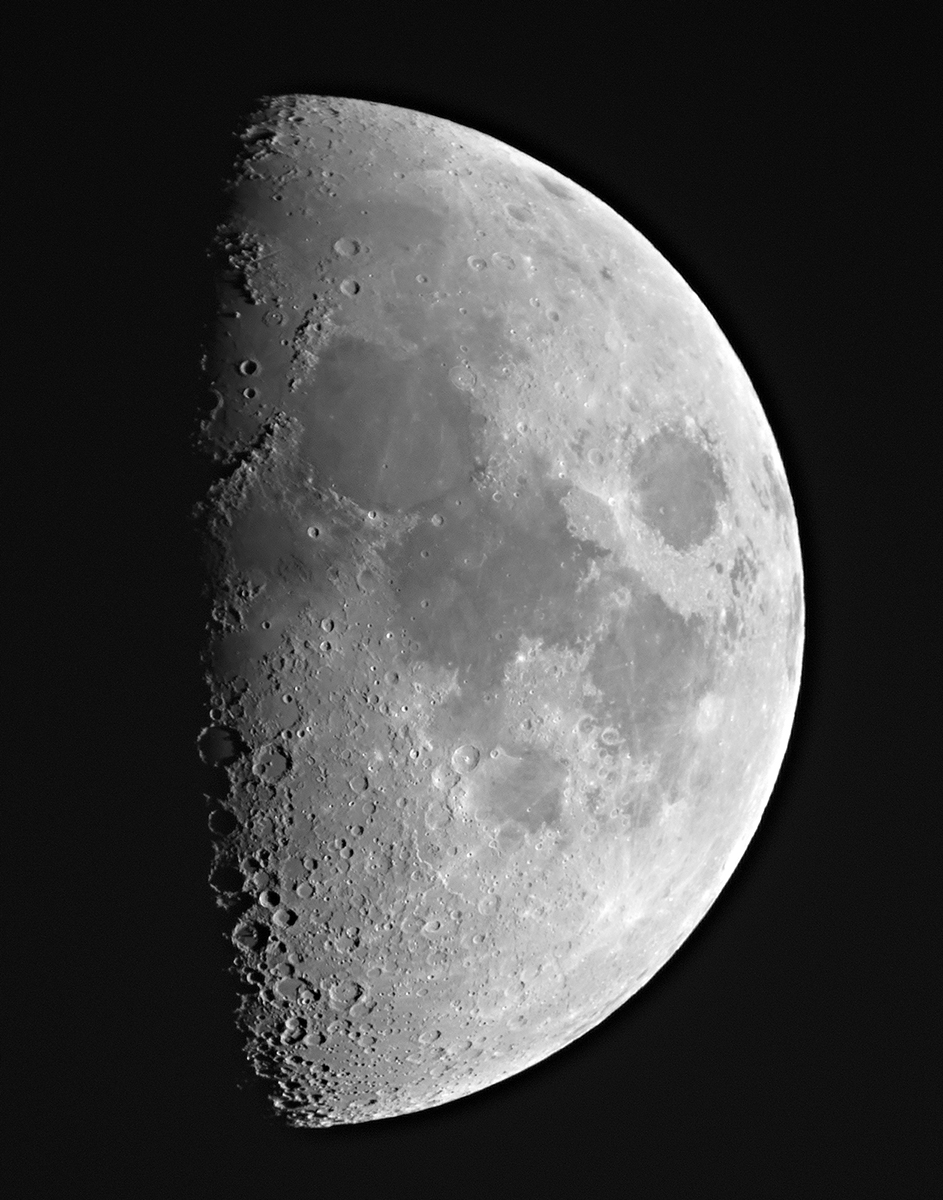 taken with d90 and celestron nexstar 4 se. 6 images stacked